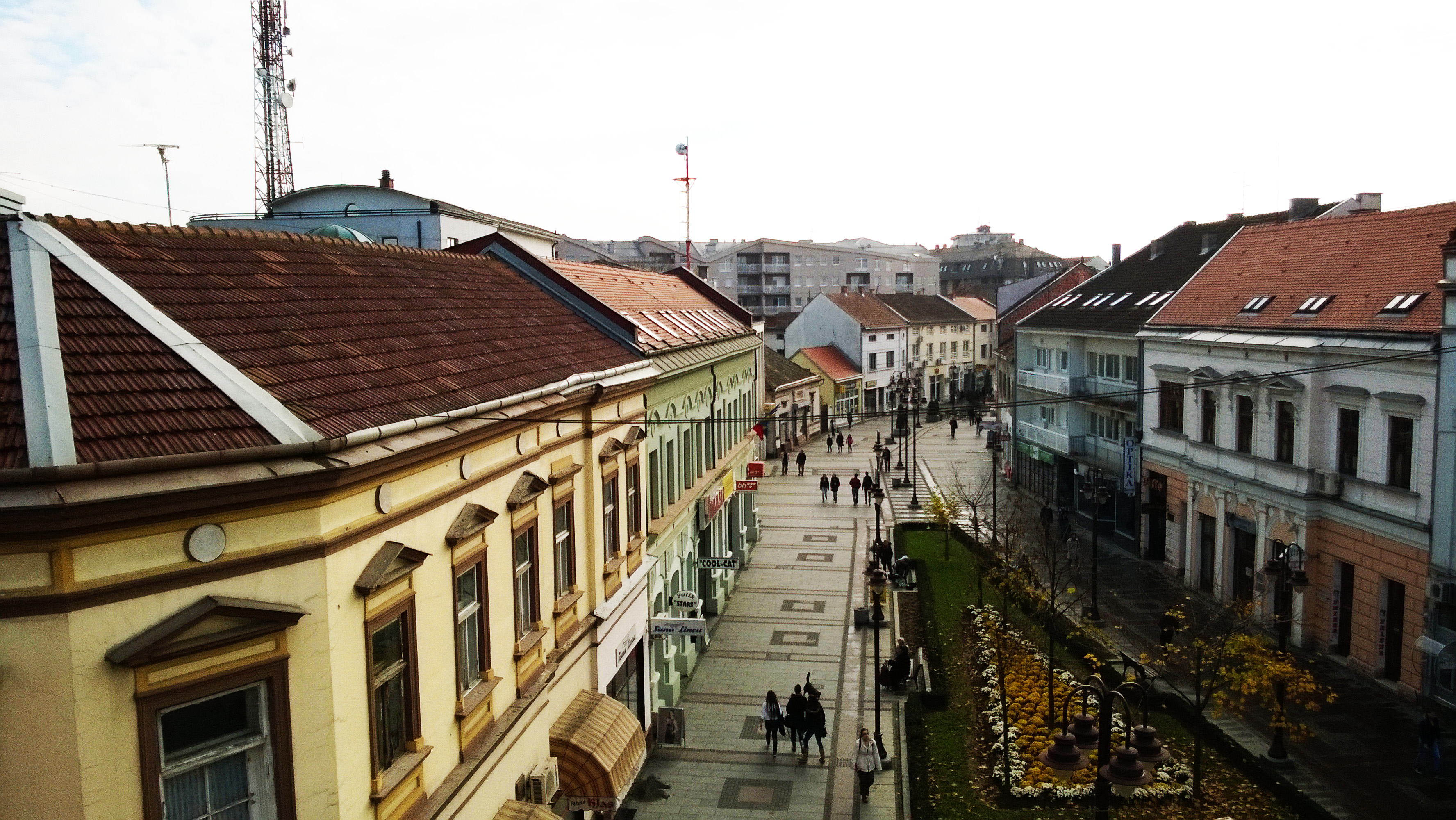 Brčko promenade